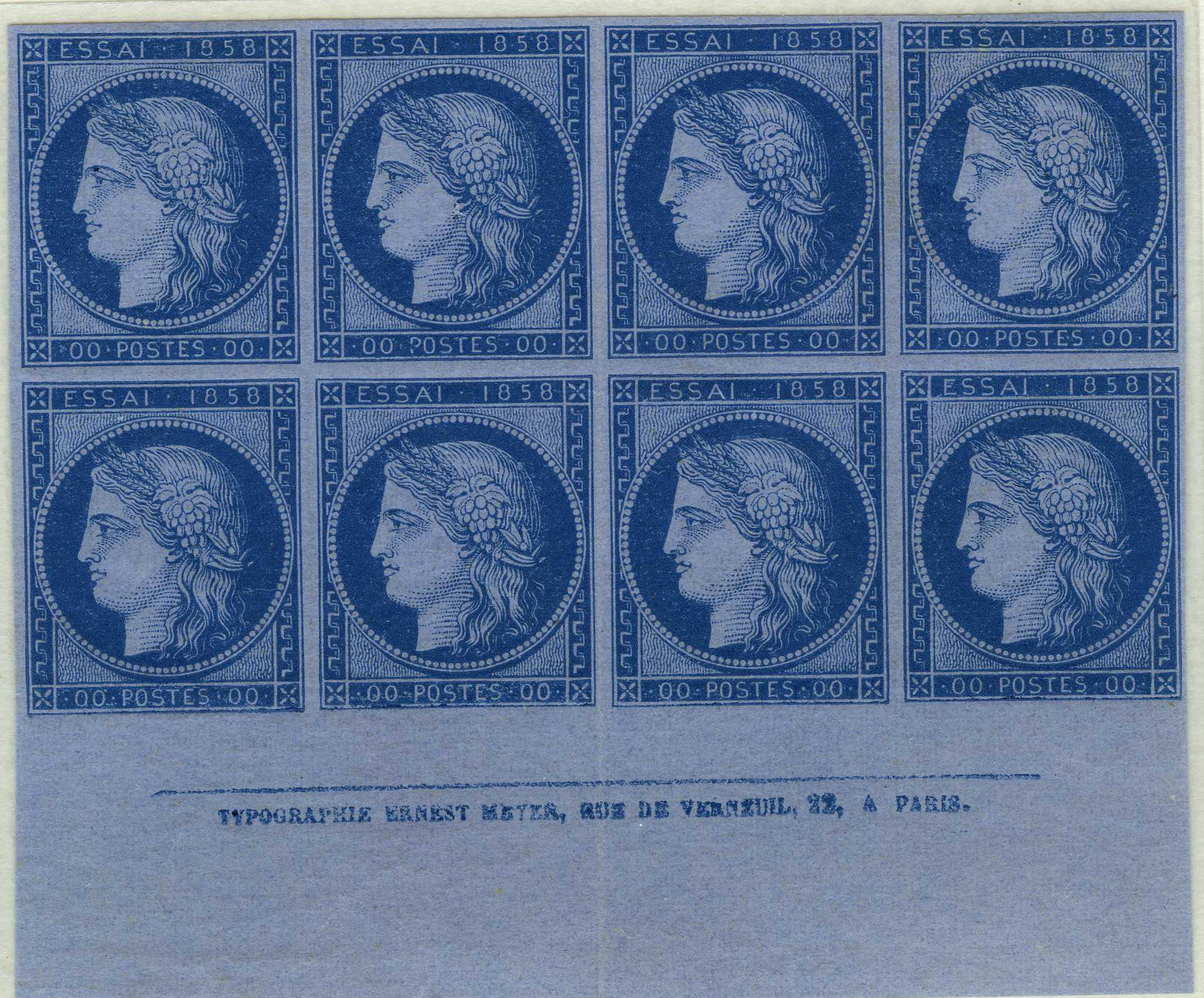 Imprimatur du "Cérès 1858"